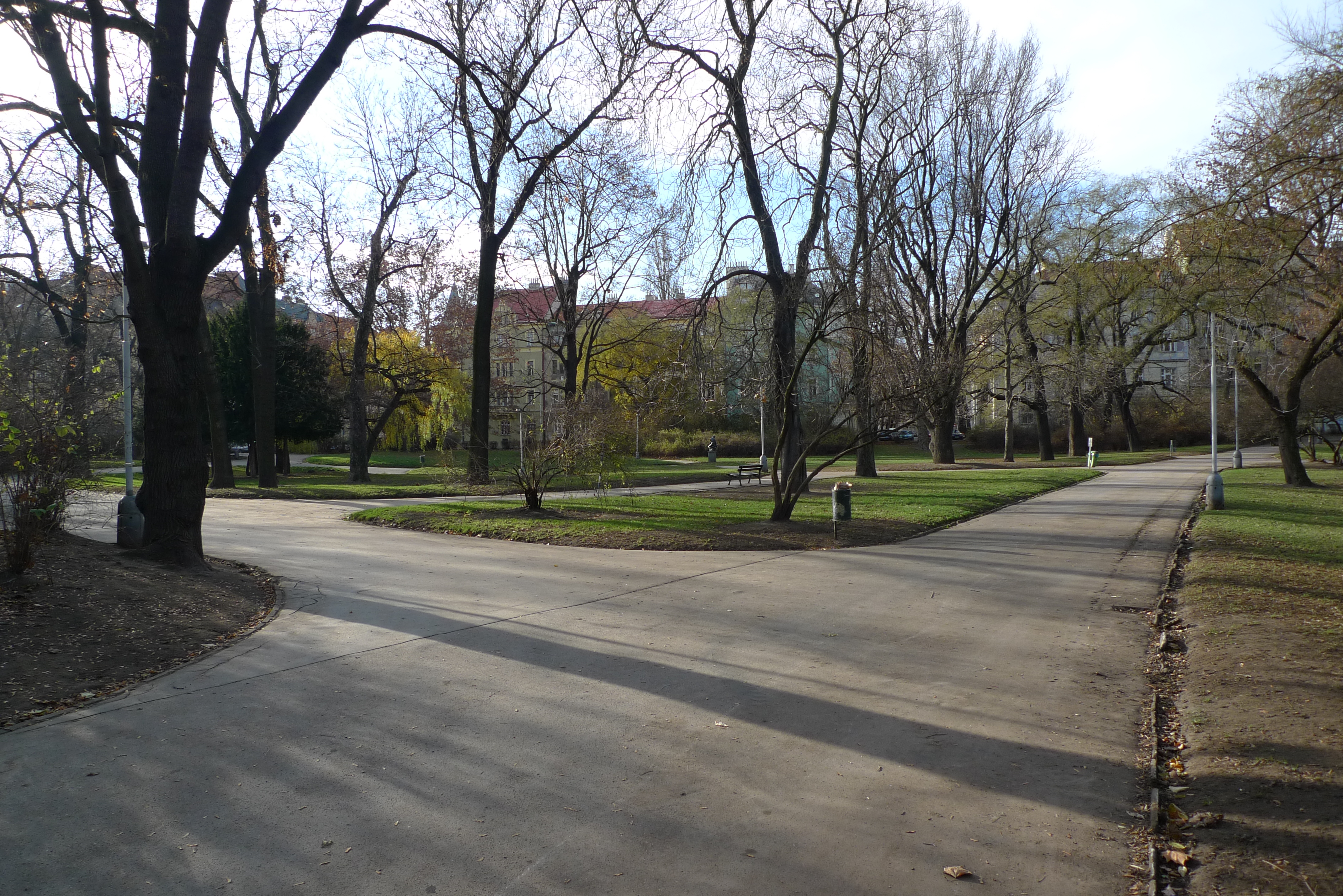 Kaizlovy sady in Prague 8-Karlín, Czechh Republic